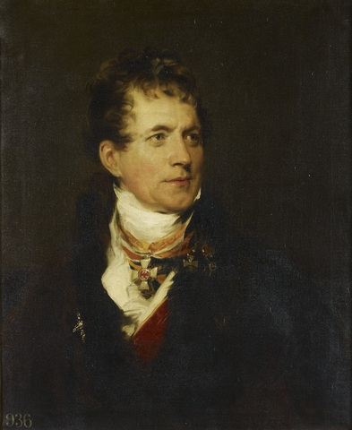 Friedrich von Gentz (1764-1832), advisor of Metternich